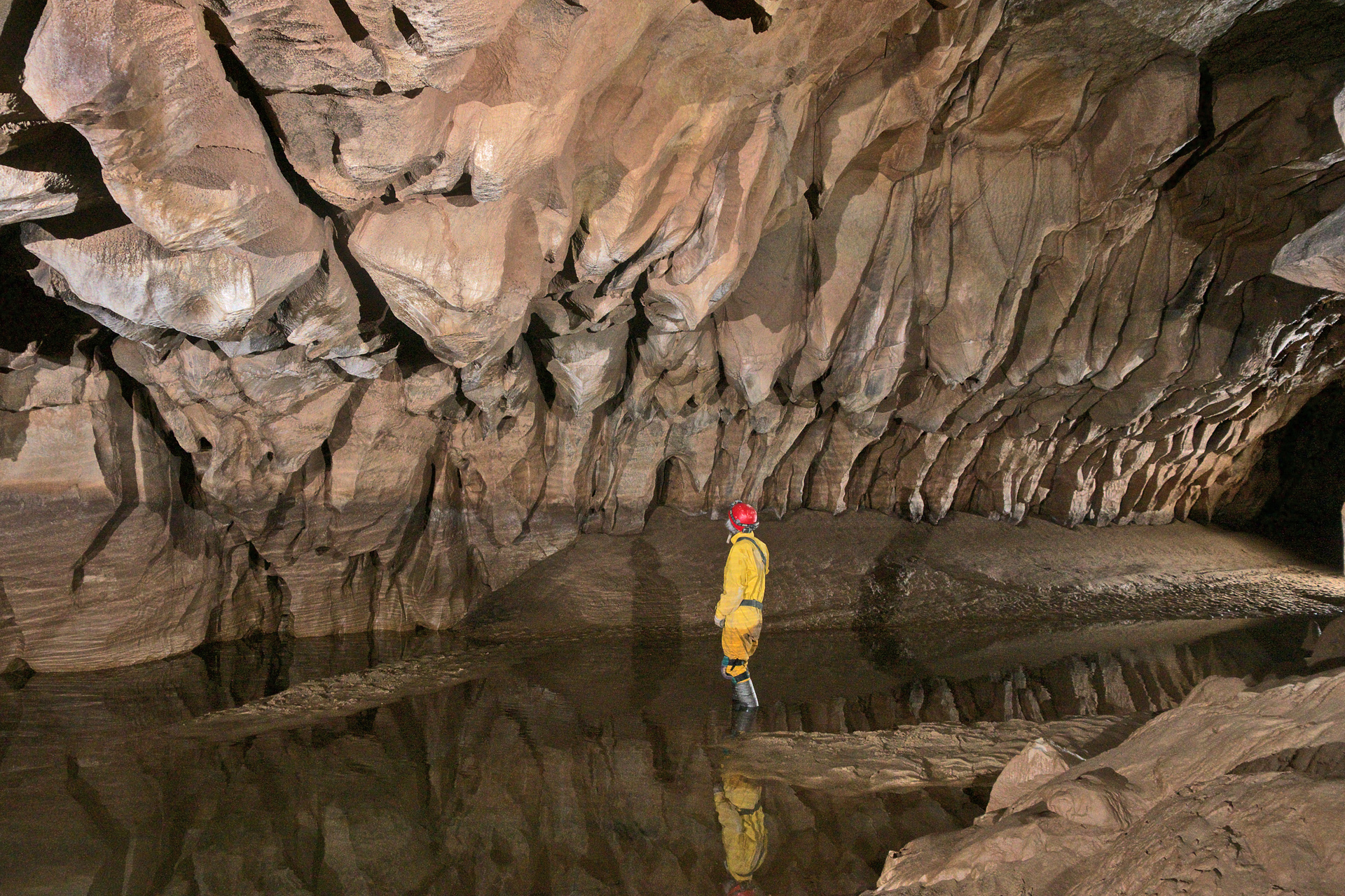 Speleogens in a West Virginia cave. These are features sculpted in the bedrock housing a cave, by solutional or erosional processes.